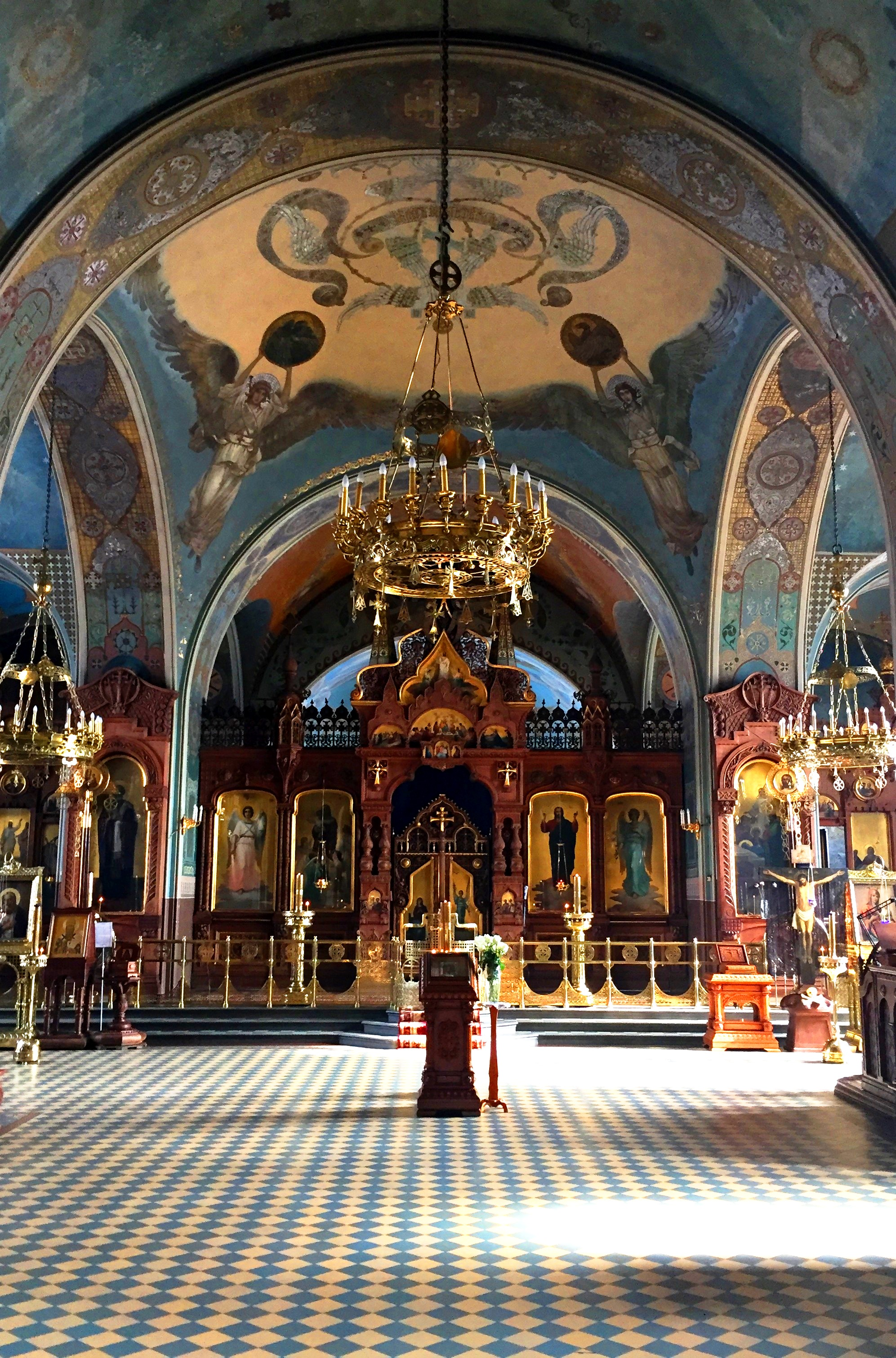 Interior of Church of Dormition of the Theotokos at Petushki